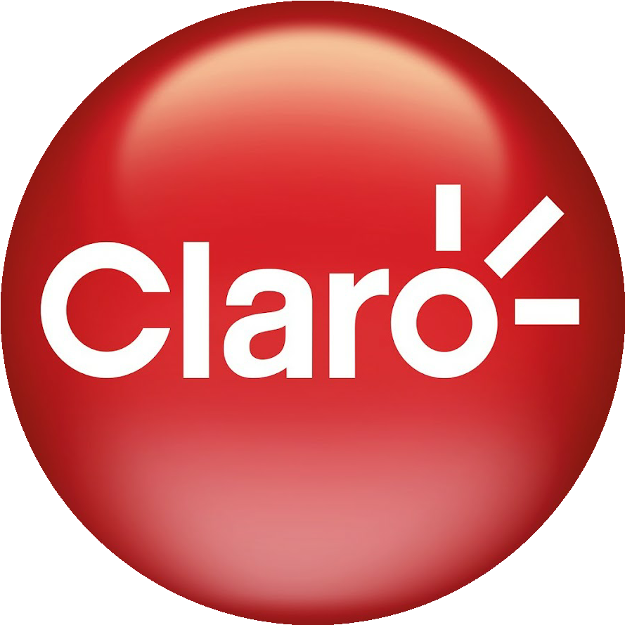 Logotipo Claro